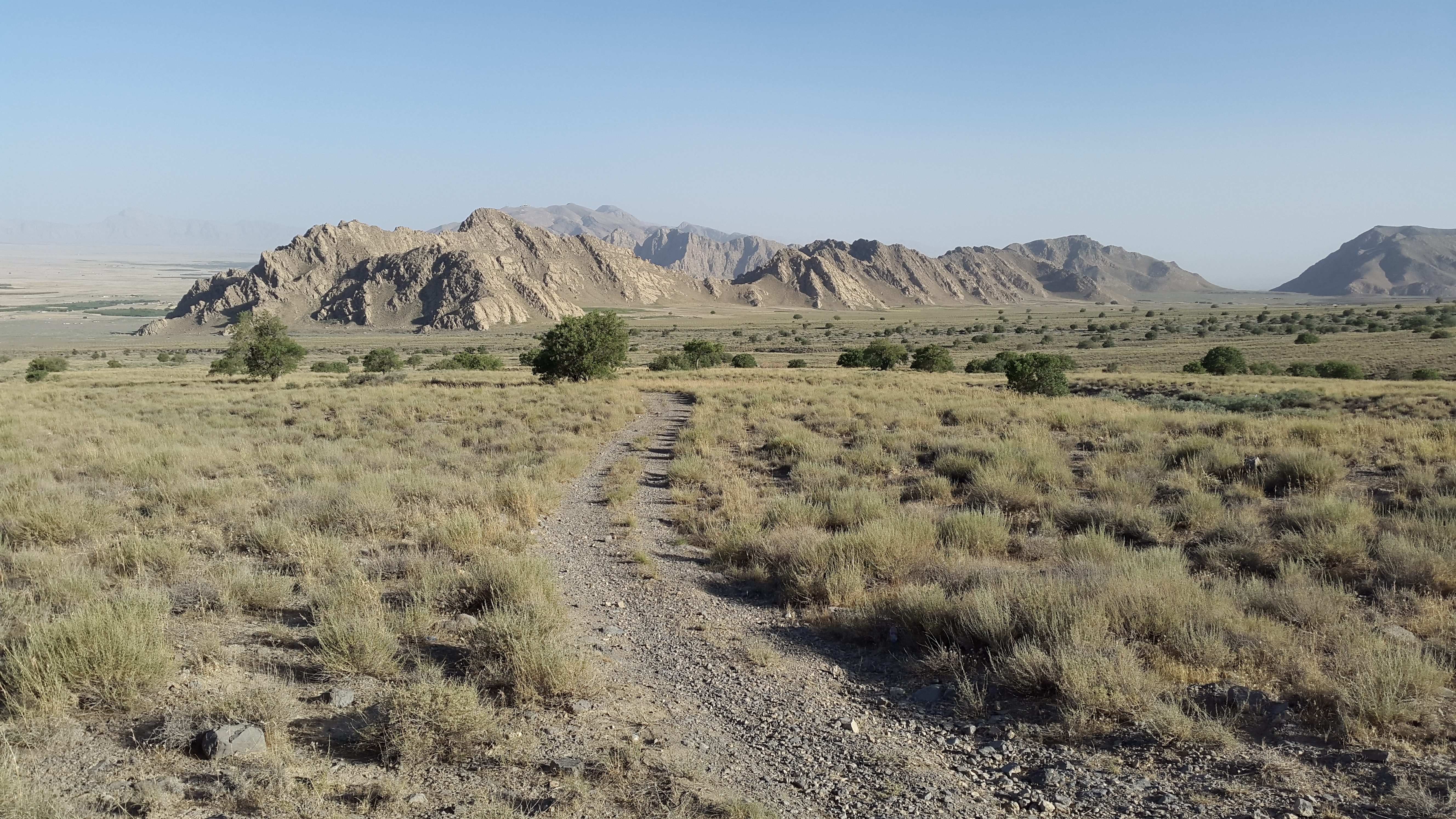 Chiltan